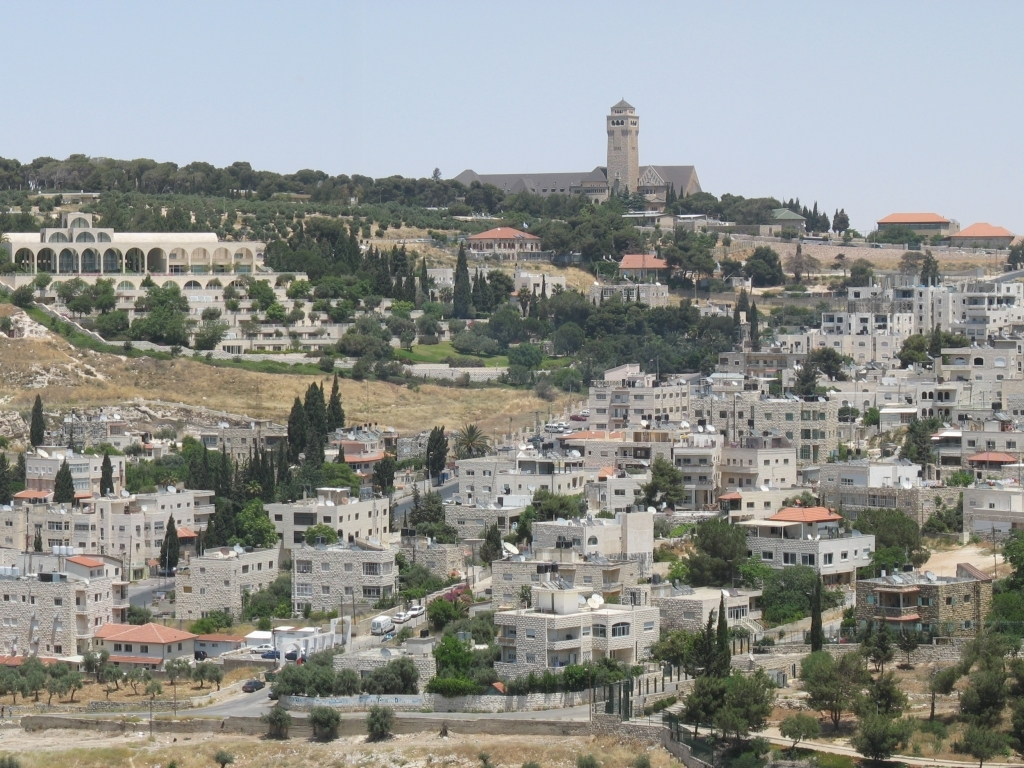 Photograph of East Jerusalem skyline from Rockefeller Museum made by uploader. Seen: Brigham Young University Jerusalem Center, Bet Orot and Augusta Victoria H.